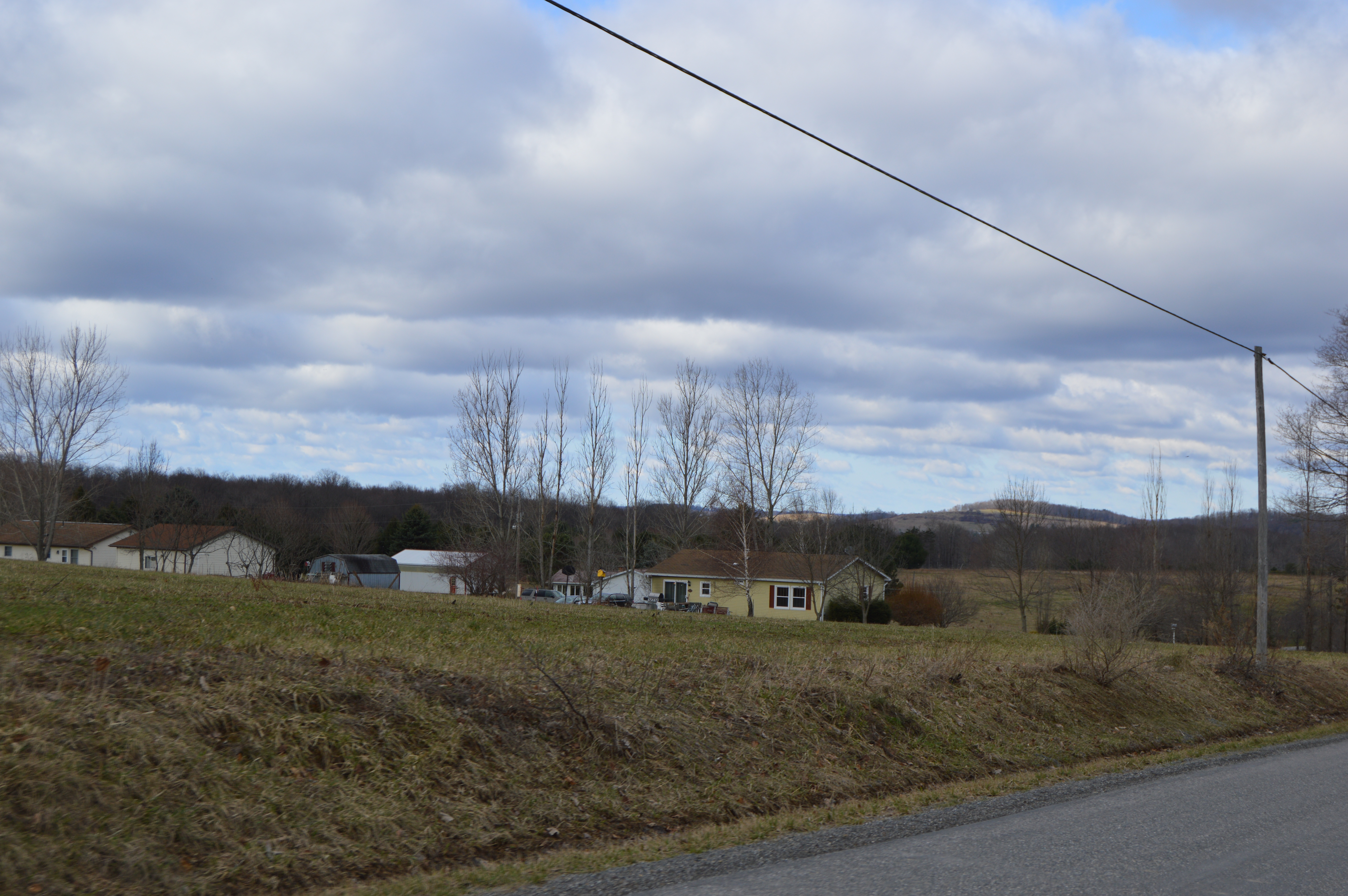 Looking southwest from Game School Road northwest of Brockway in Polk Township, Jefferson County, Pennsylvania, United States.